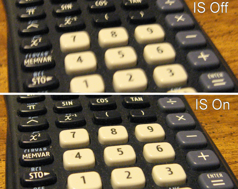 Comparison of Optical Image Stabilization modes.